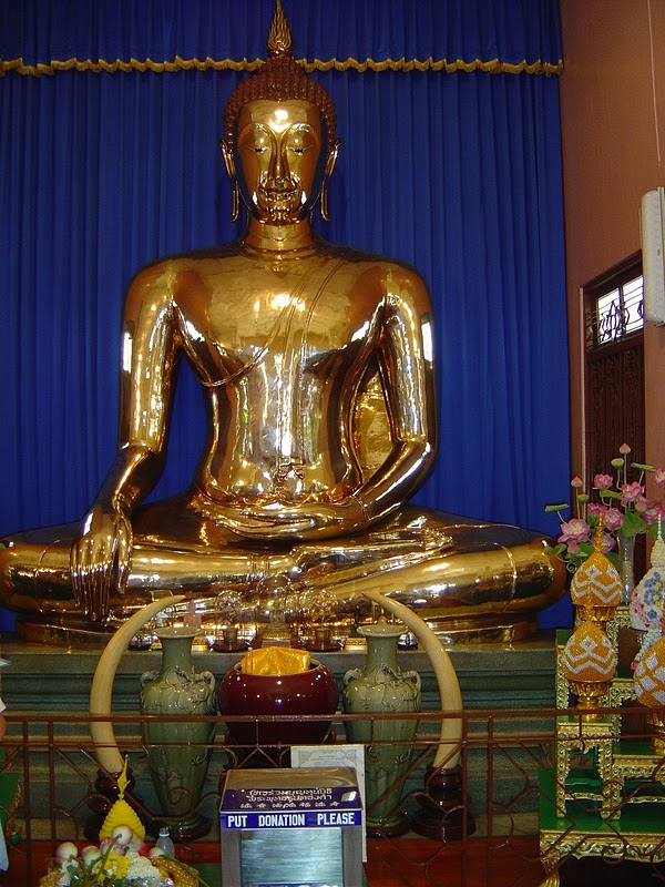 Golden Buddha 2003